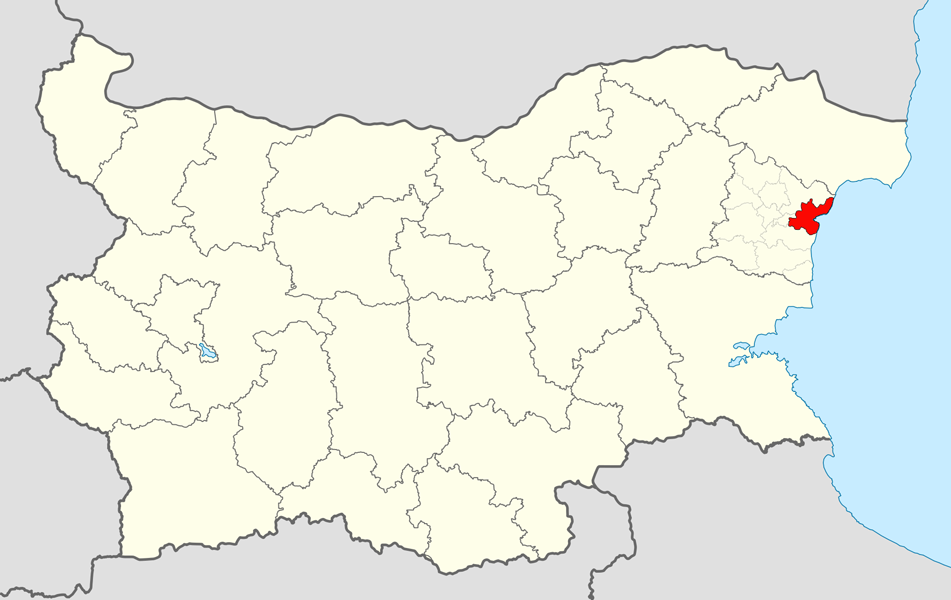 Location map of Varna Municipality within Varna Province, Bulgaria. Equirectangular projection, N/S stretching 130 %. Geographic limits of the map: N: 44.4° N S: 41.1° N W: 22.1° E E: 28.9° E